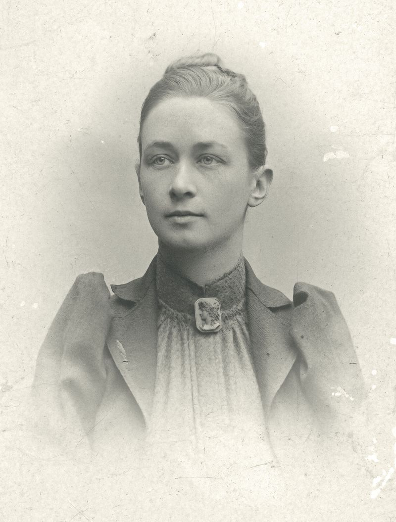 Portrait photo of Hilma af Klint by an unknown photographer